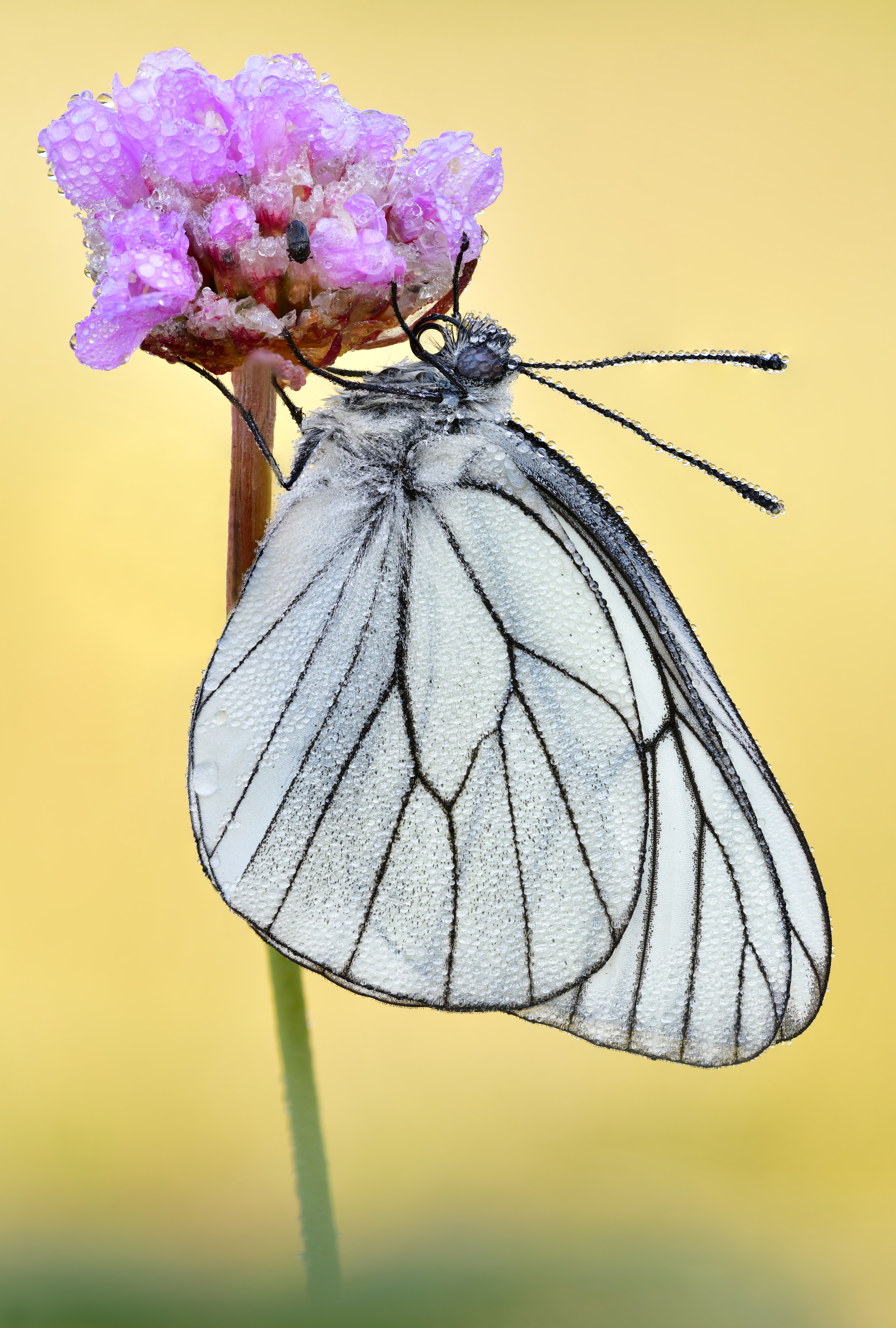 Black-veined white (Aporia crataegi). Naturschutzgebiet Wittenberge-Rühstädter Elbniederung, Germany